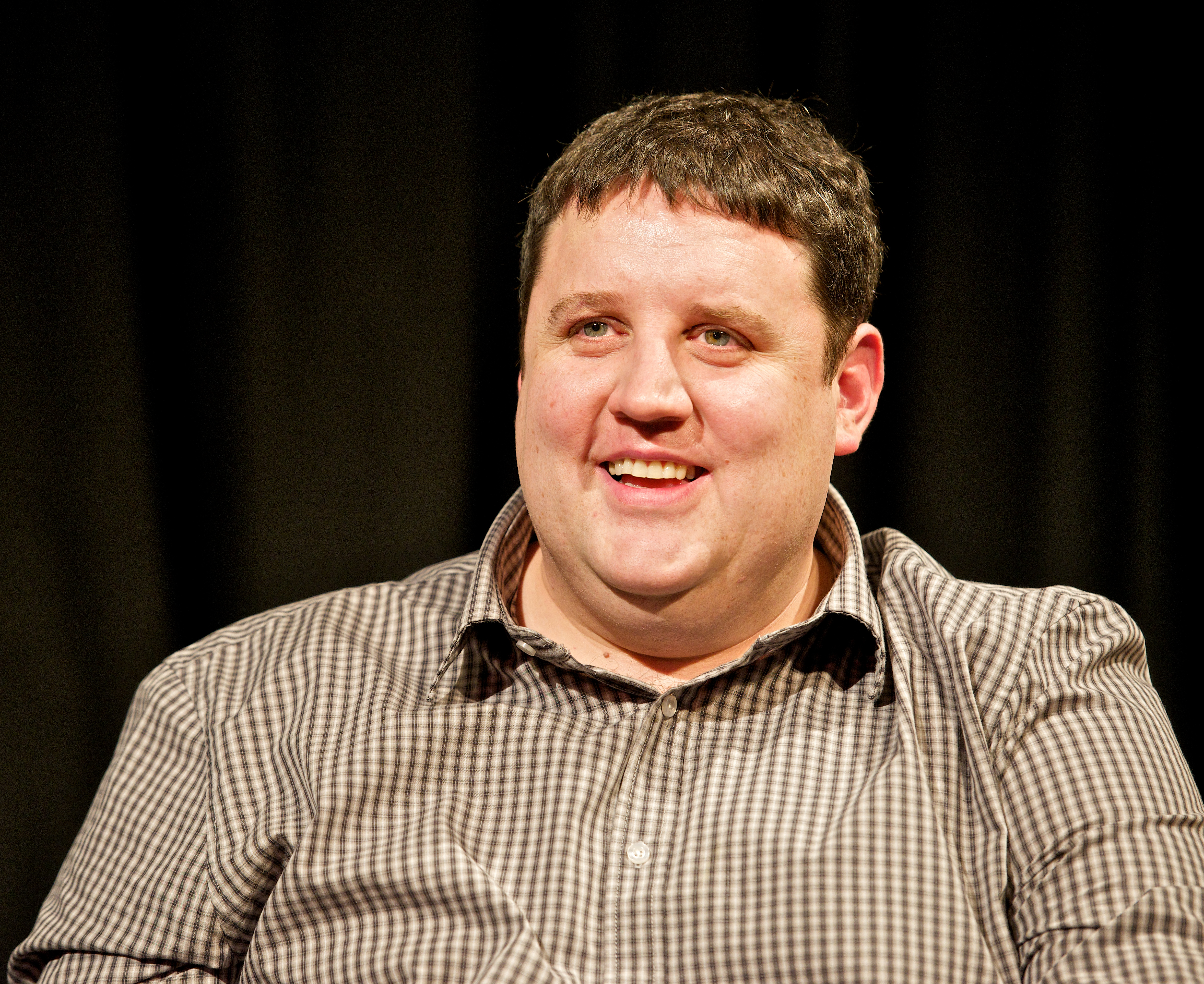 Peter Kay returned to his roots at the University of Salford on Wednesday 12 December when he passed on advice and tips from his hugely successful comedy career to more than 50 performance students. The Bolton-born comic gave a masterclass to an audience of students and staff at the University’s Adelphi Studio, the old stomping ground where he completed a Media and Performance course in the late 1990s.